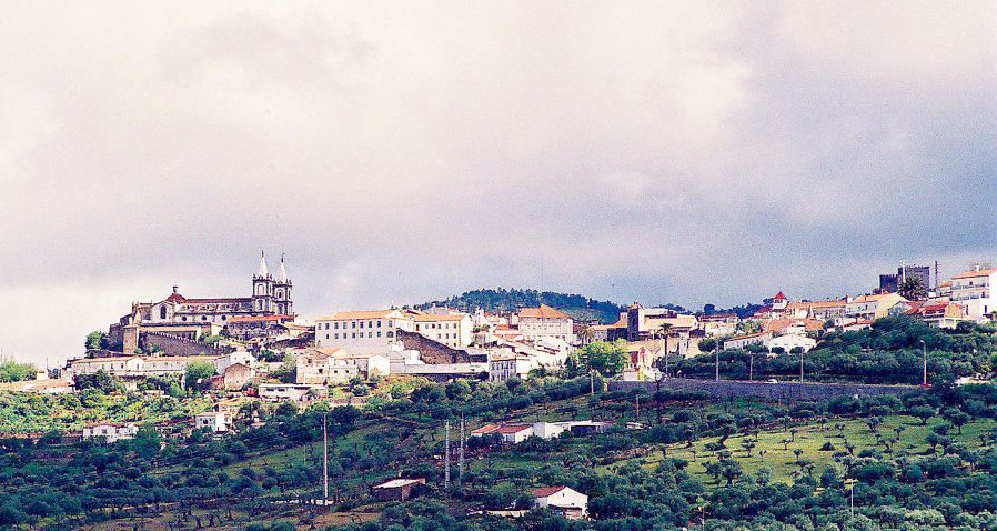 View of Portalegre, Portugal